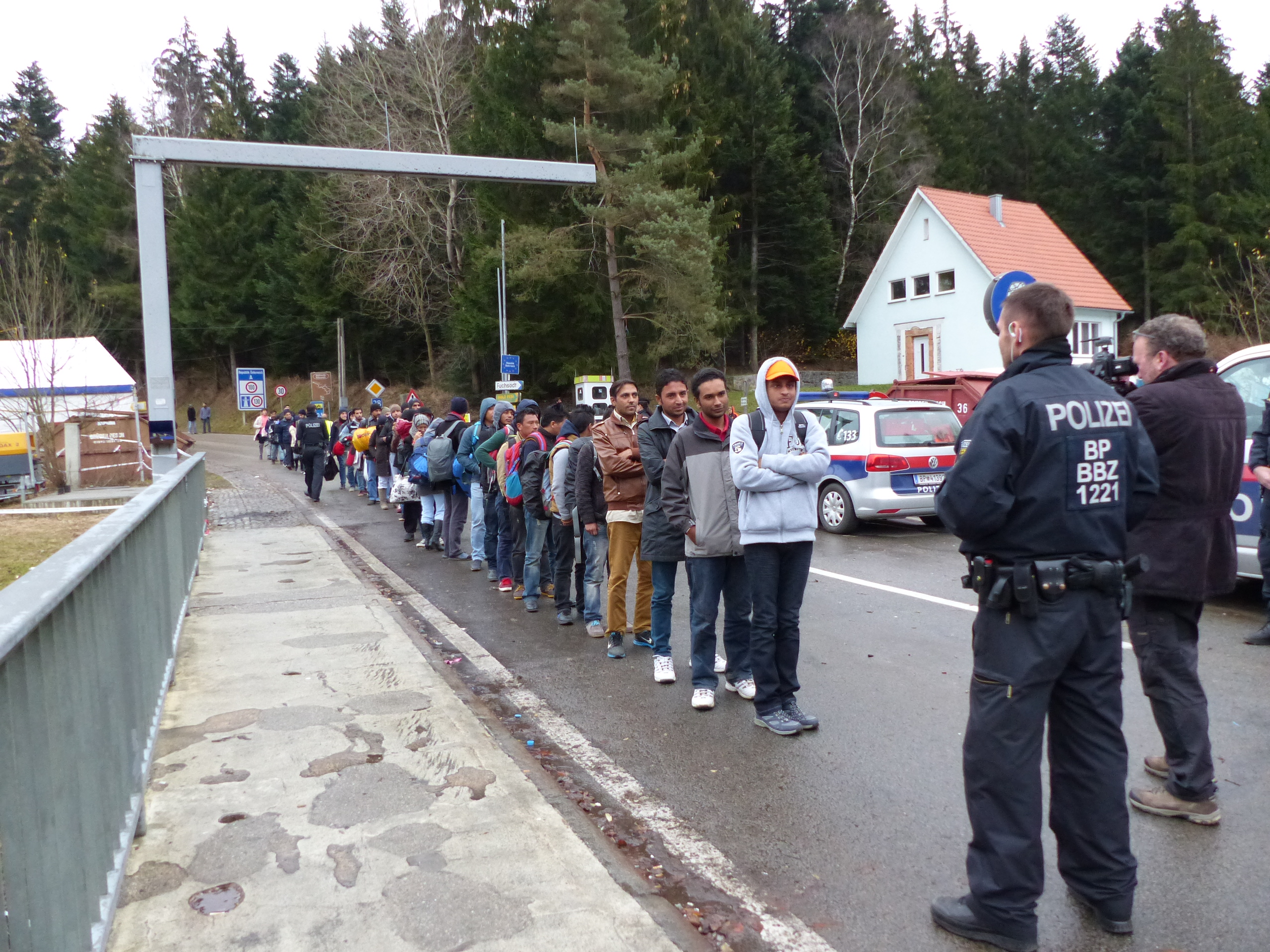 Grenzübergang Oberösterreich / Deutschland Immigrantenabfertigung 17.11.2015 - WEGSCHEID-HANGING Personality rights warning Although this work is freely licensed or in the public domain, the person(s) shown may have rights that legally restrict certain re-uses unless those depicted consent to such uses. In these cases, a model release or other evidence of consent could protect you from infringement claims.